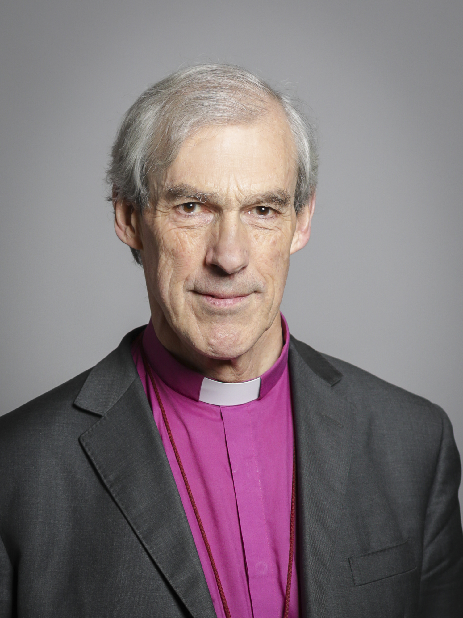 Official portrait of The Lord Bishop of Carlisle 3×4 portrait of The Lord Bishop of Carlisle